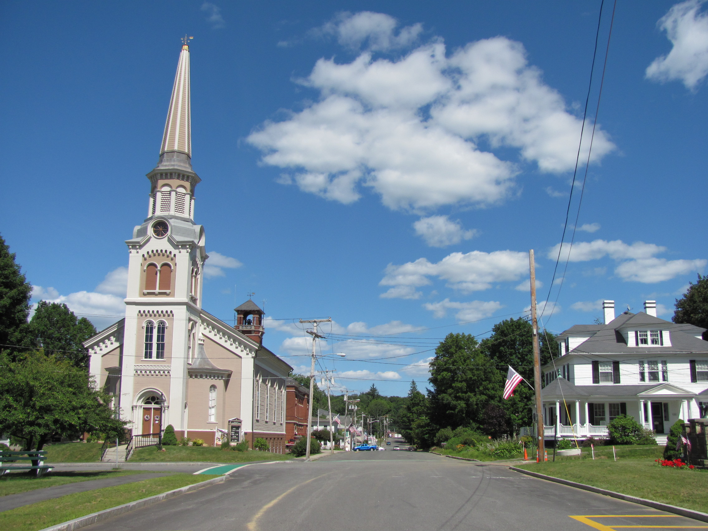 Congregational Church (left) and Gavitt House (right), Brookfield Massachusetts